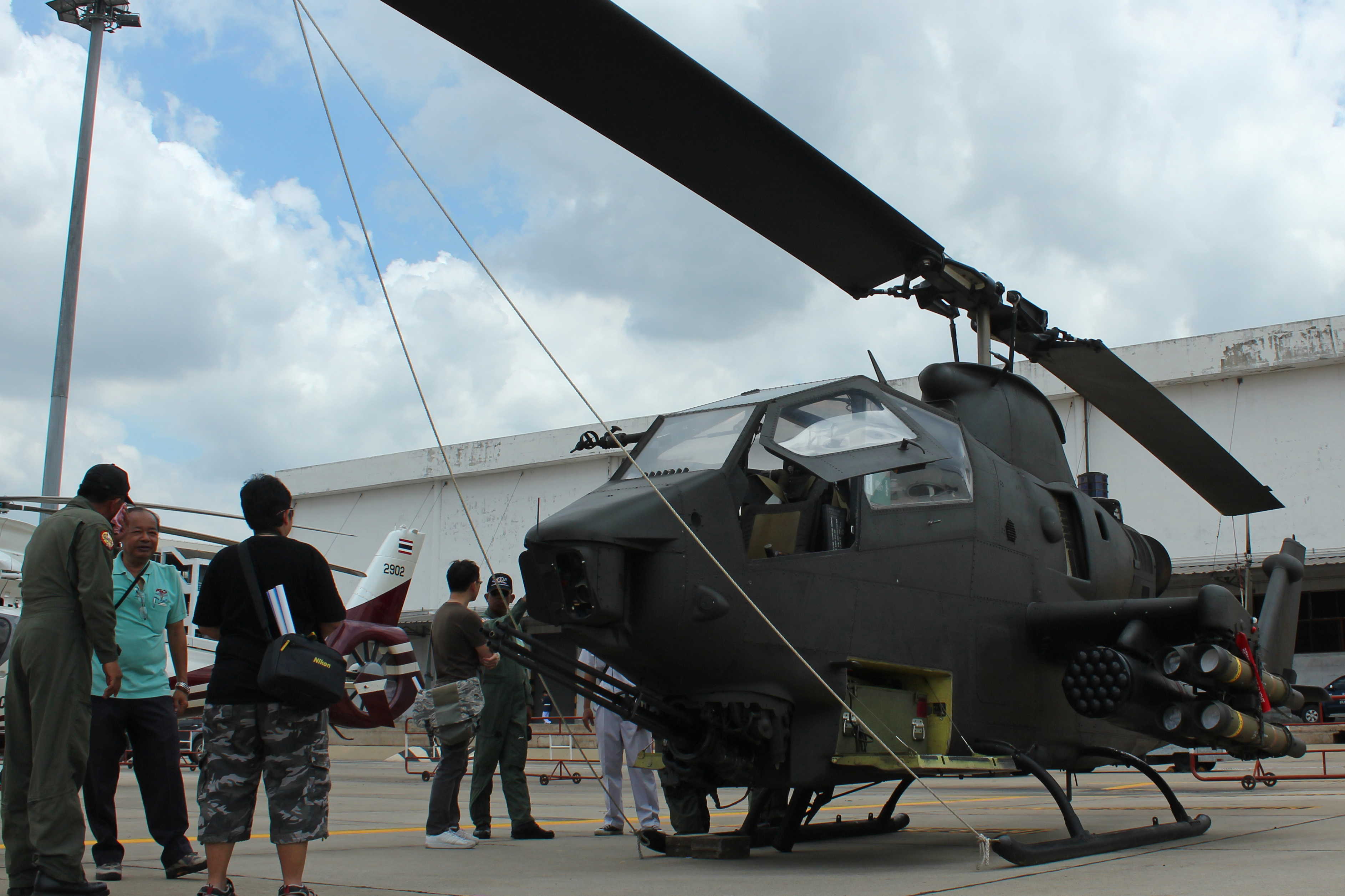 Royal Thai Army AH-1F Cobra : During air show at Donmaung air force base , Thailand.